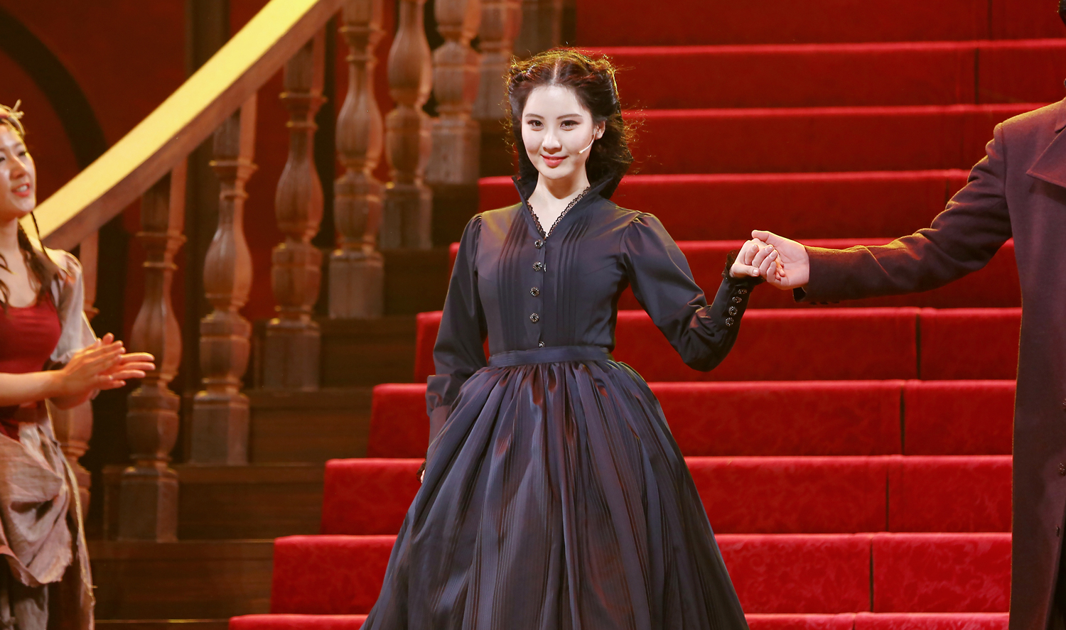 Seohyun performed "Gone with the Wind" musical on January 8, 2015.